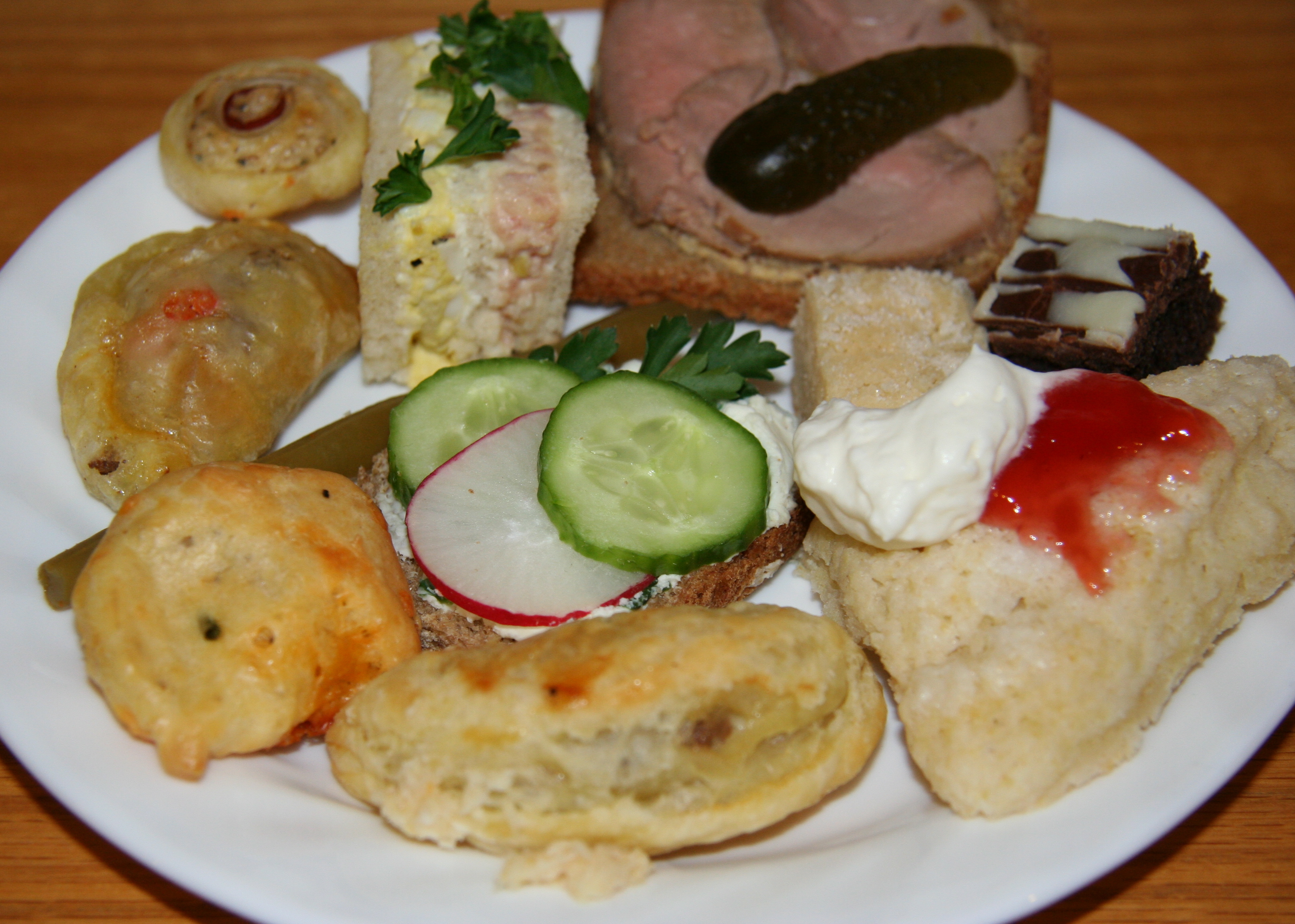 Afternoon tea plate of finger foods: miniature pasties with a bit of horseradish, a prosciutto-fontina pinwheel, pickled green bean, ribbon sandwich of ham salad and egg salad, open-face sandwich with cucumber, radish, and cream cheese and another with thin-sliced pork tenderloin, pickle, and mustard, scone with jam and clotted cream, shortbread, and chocolate cake